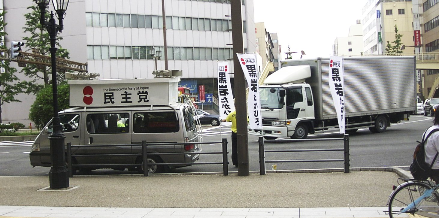 Woke me up from ten stories below my room at Hotel Rich, Niigata, where it decided to park for an hour to yell at passing motorists through a megaphone. Photo taken by me in July, 2006.